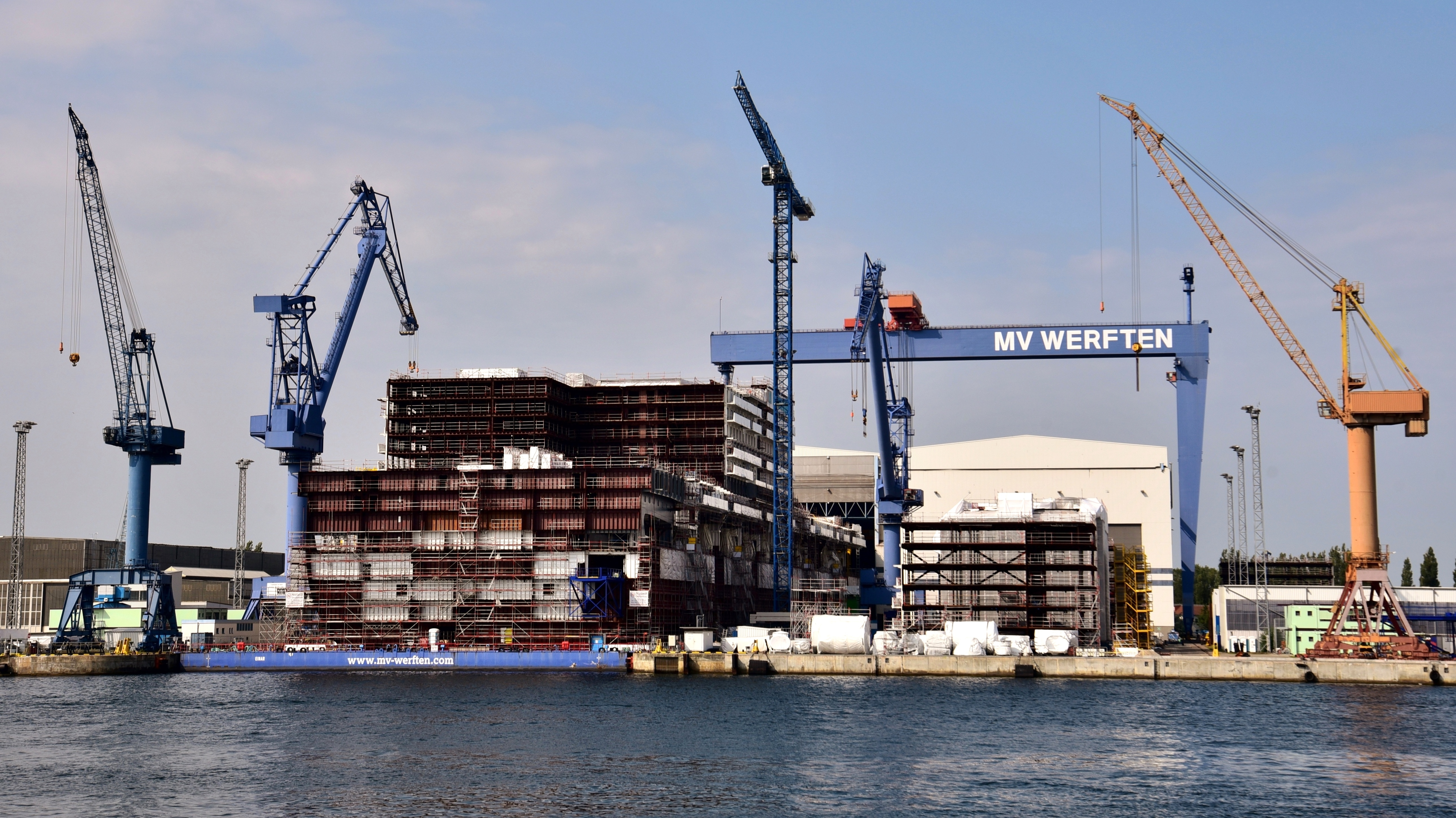 View of the cruise ship Global Dream (left), under construction at MV Werften in Rostock-Warnemünde